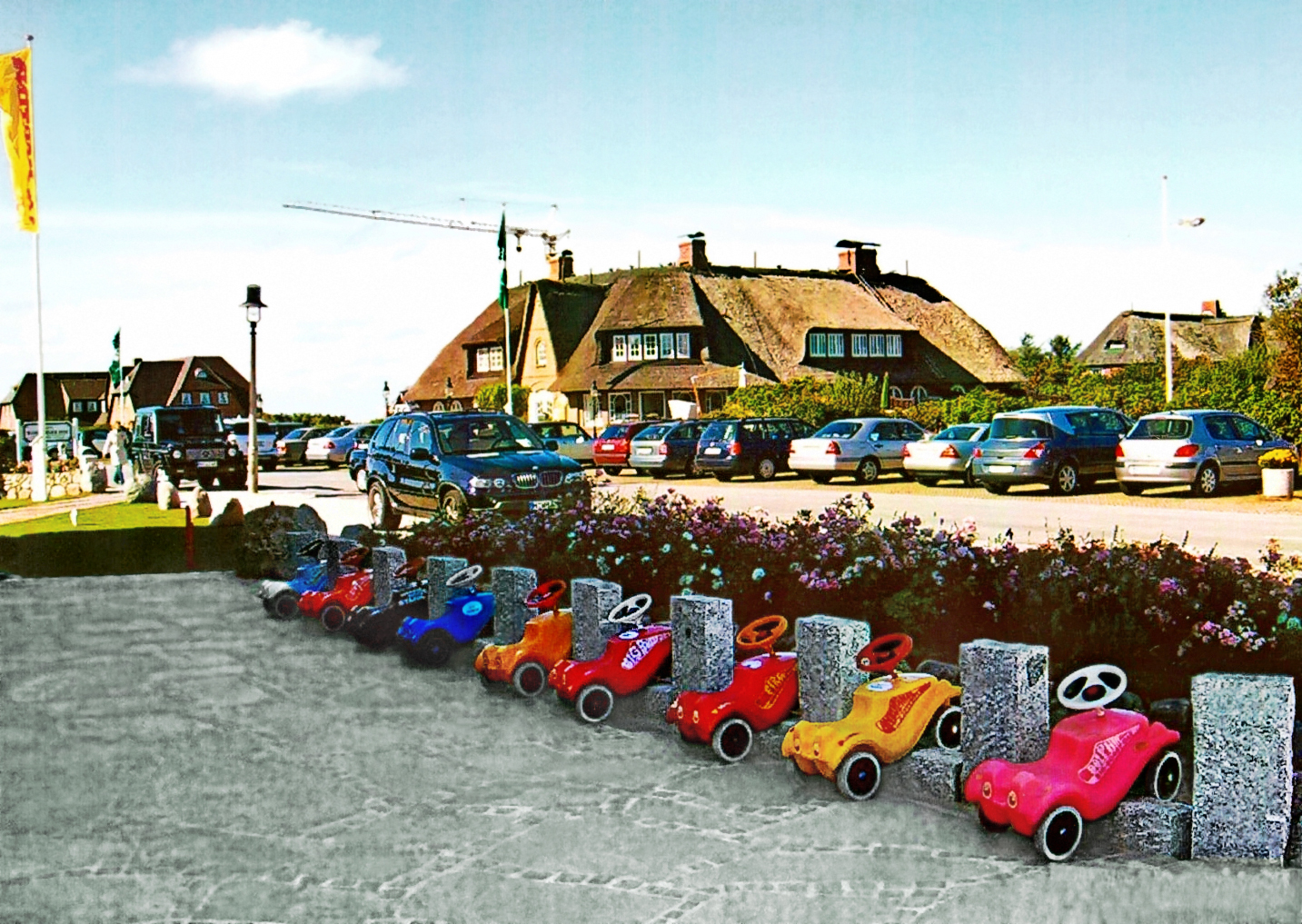 Bobby car parking in Kampen on Sylt